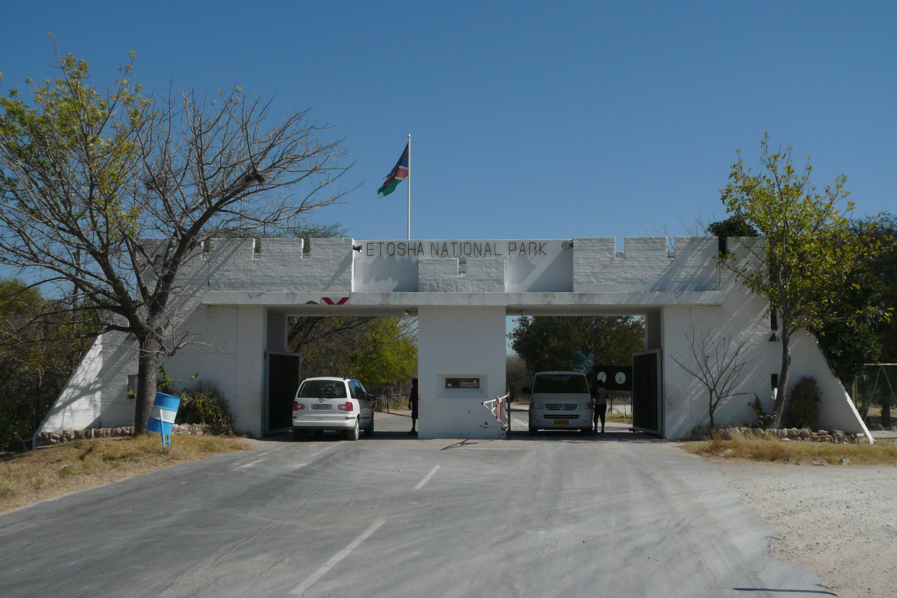 Entrance gate to the Etosha National Park in Namibia.